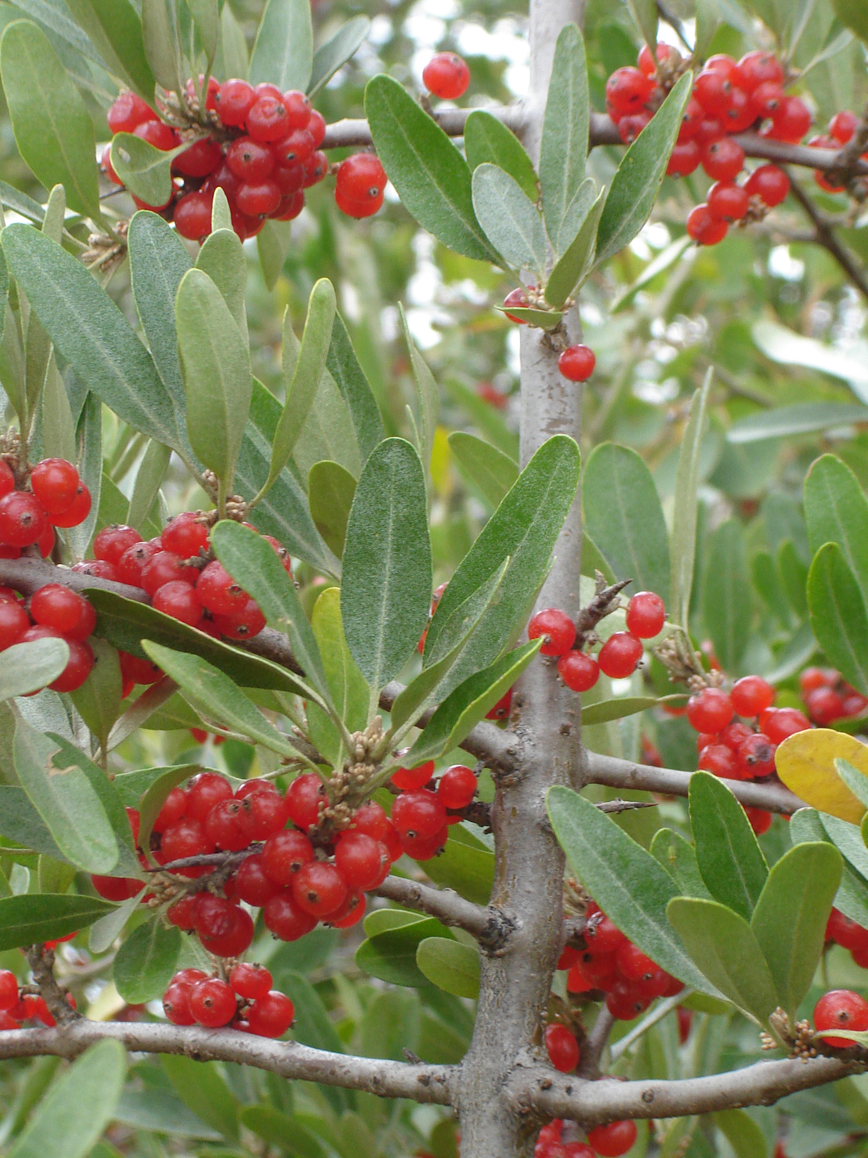 Julia Adamson, photographer in the Saskatoon area. If you plan on using this illustration in wikipedia or outside of wikipedia, an email would be greatly appreciated.